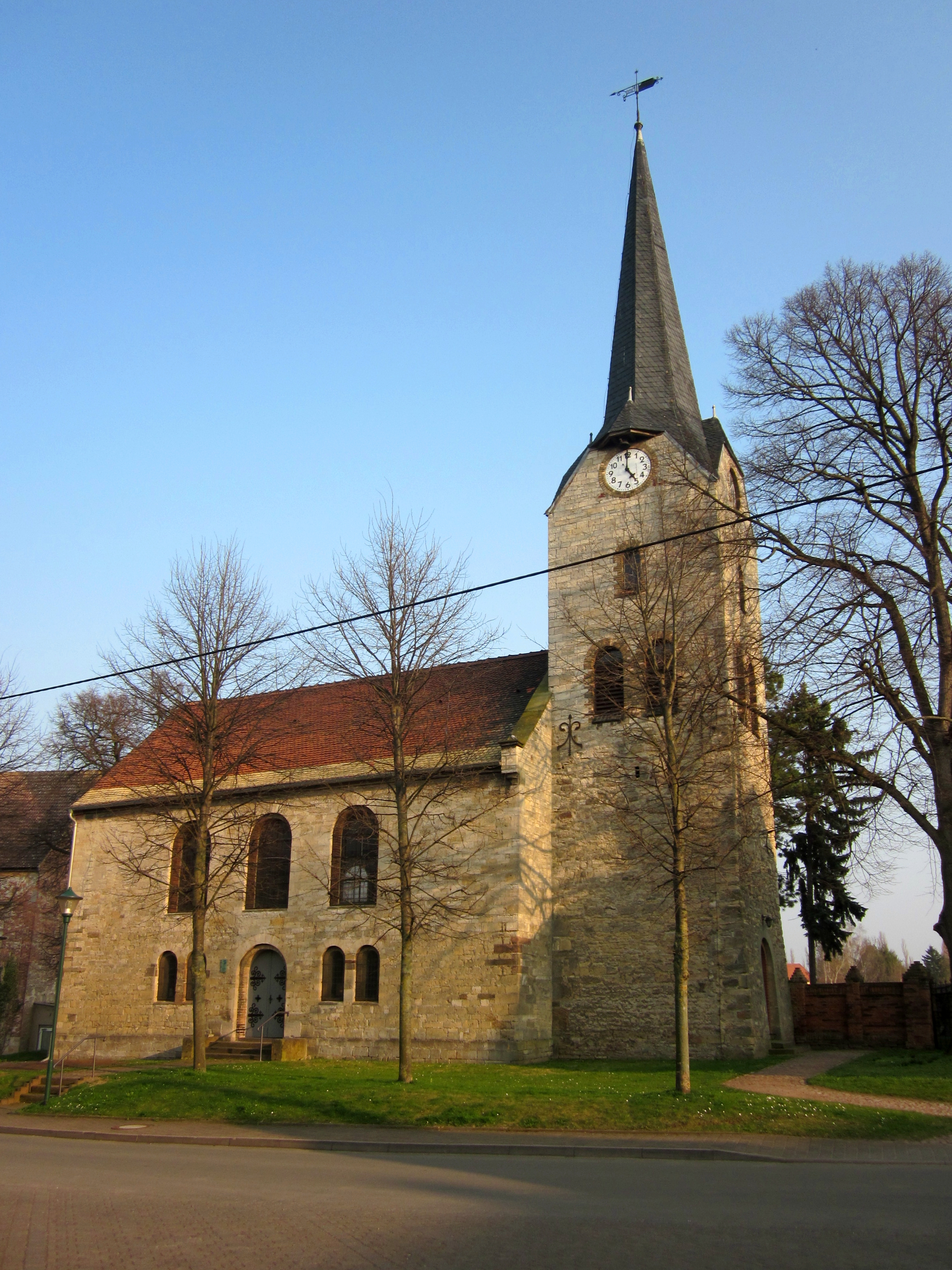 St. John's Church in Obhausen (district: Saalekreis, Saxony-Anhalt)